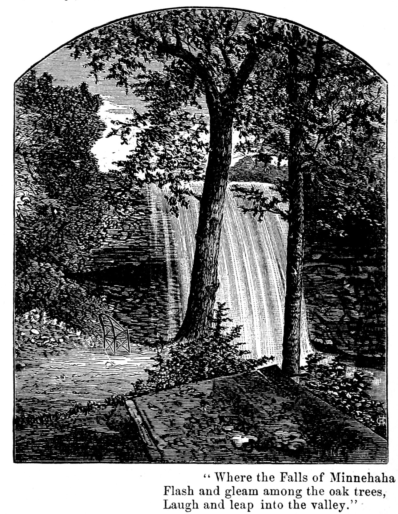 "Where the falls of the Minnehaha flash and gleam among the oak trees, laugh and leap into the valley"